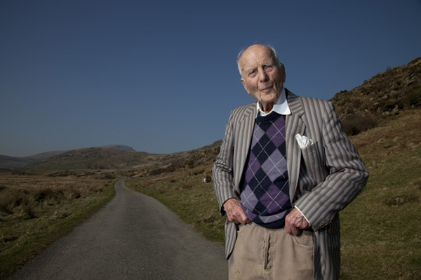 This is an Image of Micky Burn in Wales in 2009 near his home filming his documentry "Turned Towards the Sun". I am using this image to upload on his wikipedia page that's all.